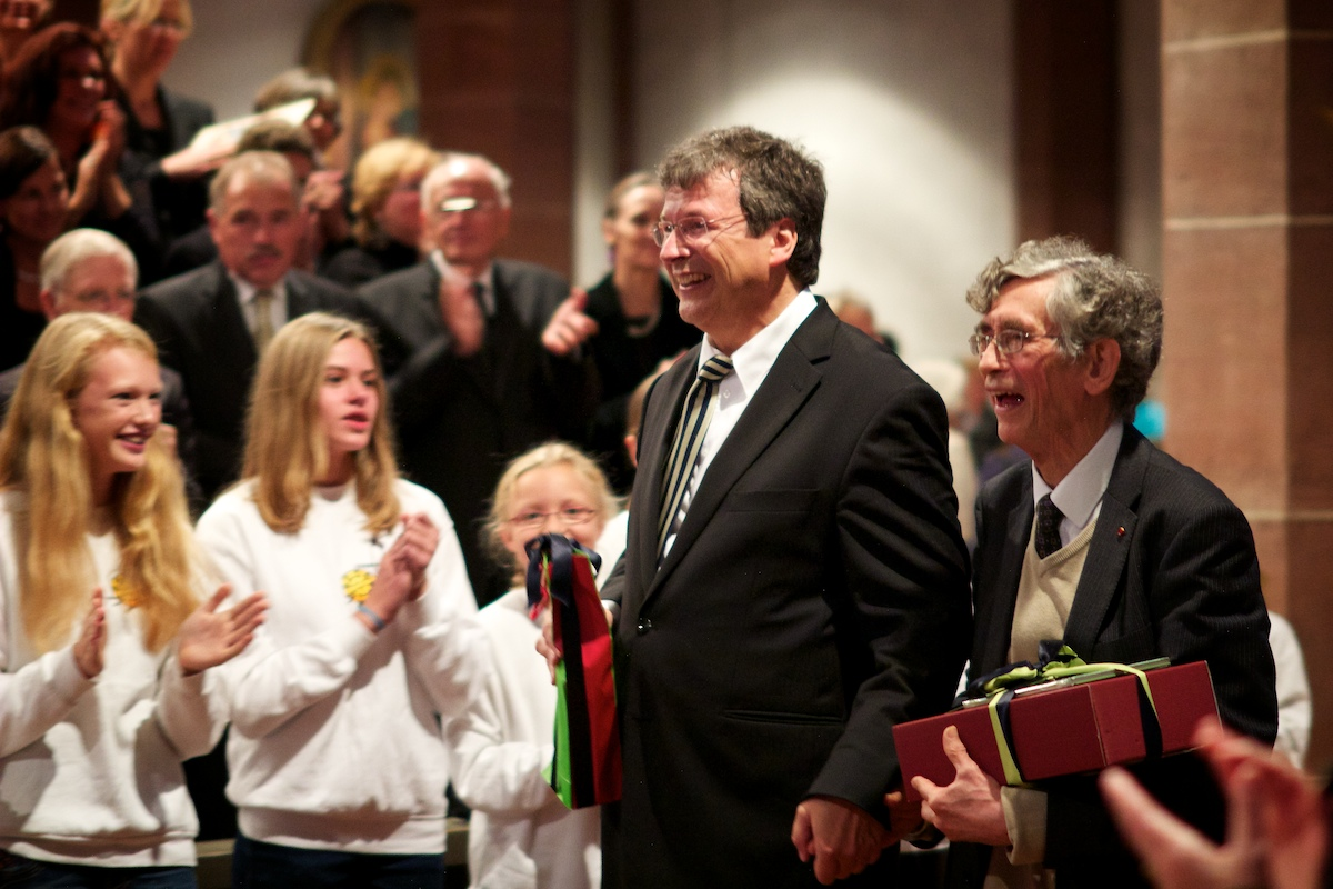 Gabriel Dessauer and Sir Colin Mawby receiving standing ovations after the premiere of Mawby's Missa Solemnis "Bonifatius-Messe" on Oktober 3, 2012 at St. Bonifatius, Wiesbaden, Germany.